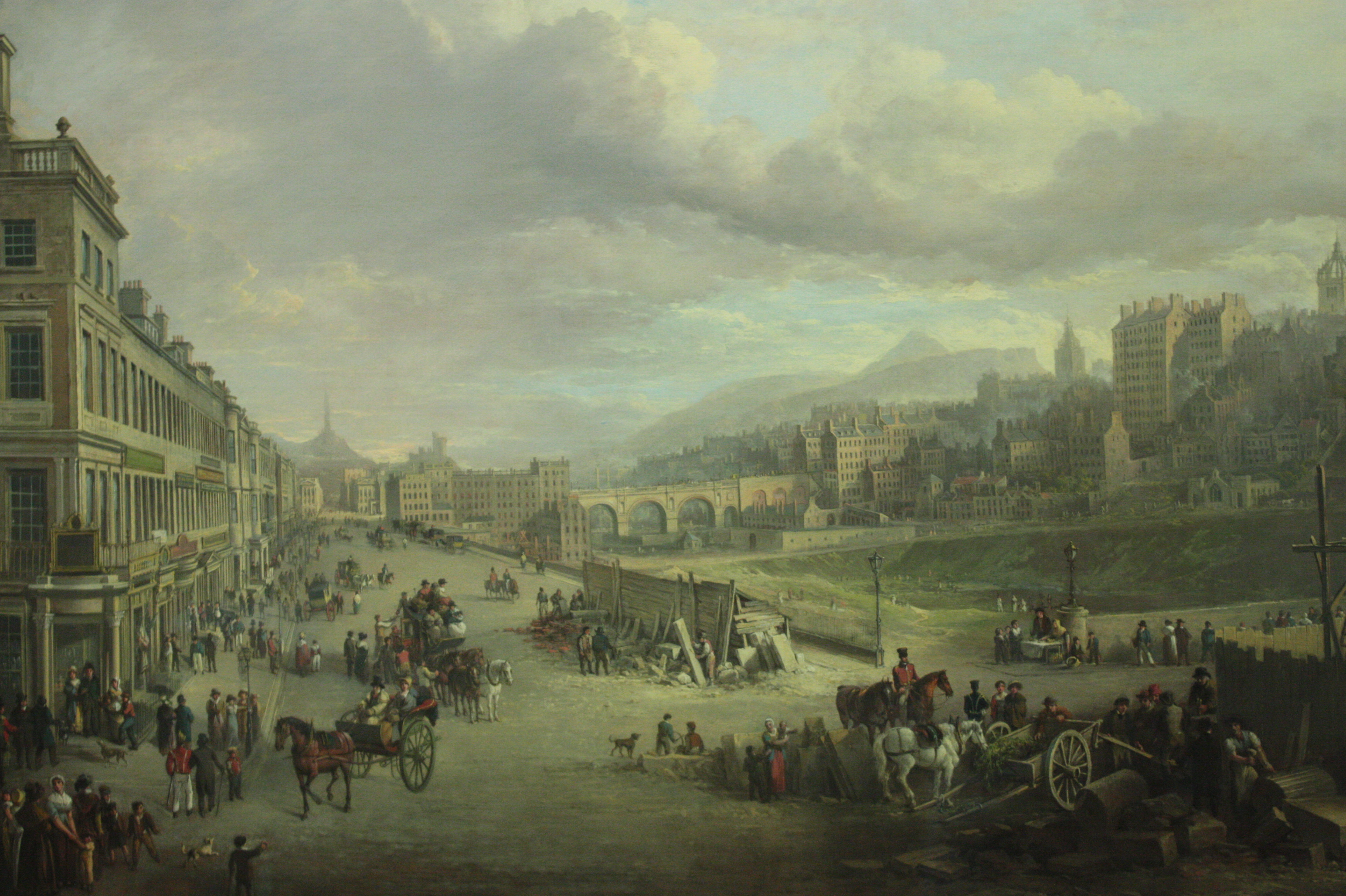 Princes Street 1825 by Alexander Nasmyth